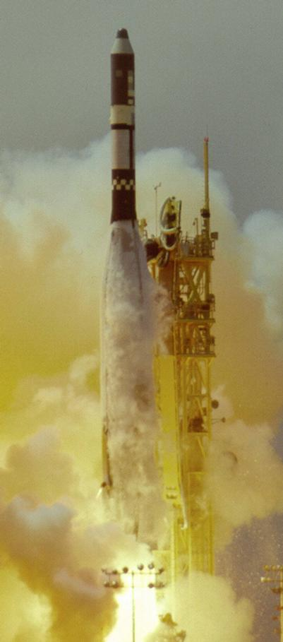 Gambit 2 spy satellite on-board of Atlas Agena D launch vehicle